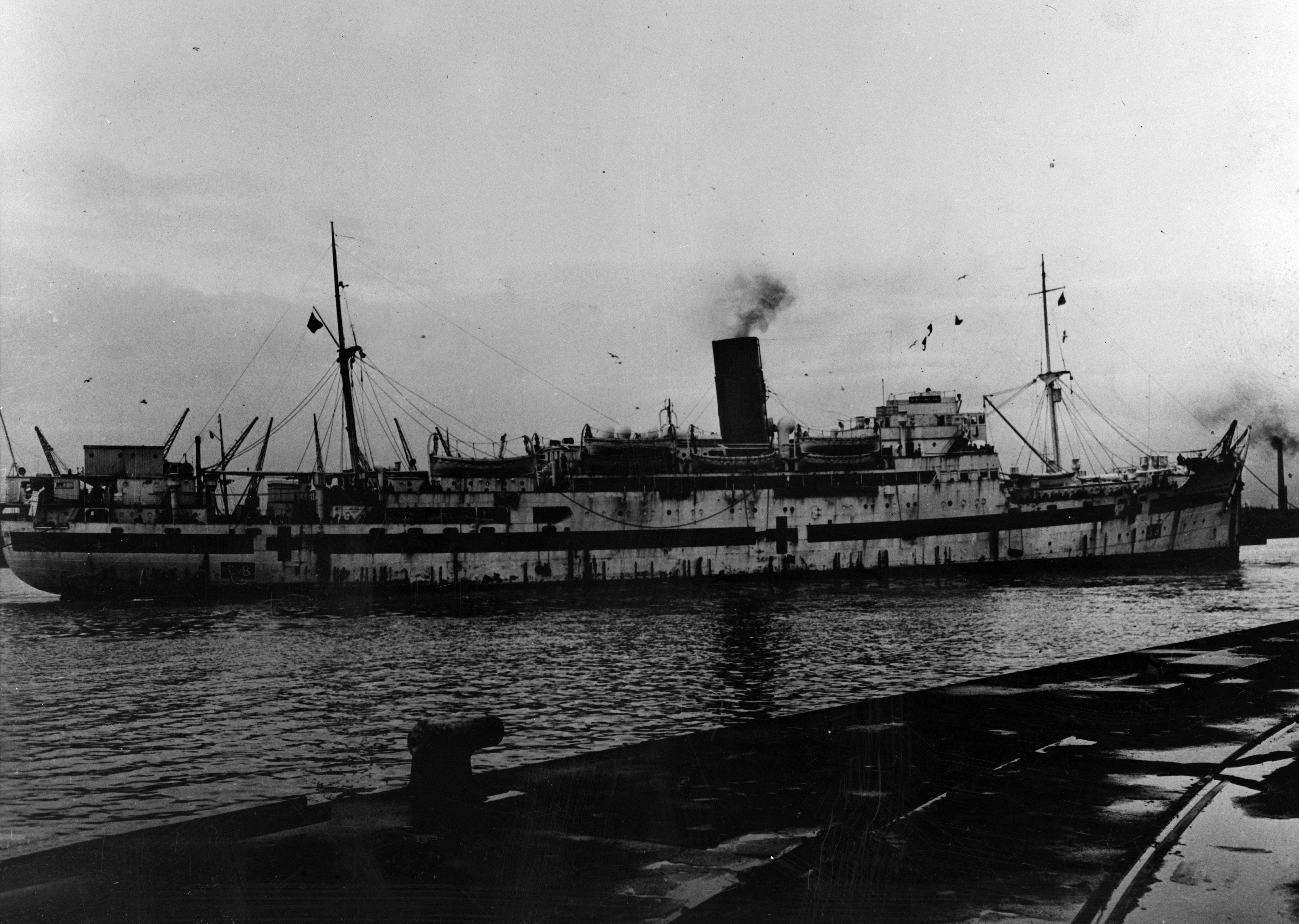 The Royal Navy hospital ship HMHS Newfoundland. Note the Red Cross designation "38" on the bow.